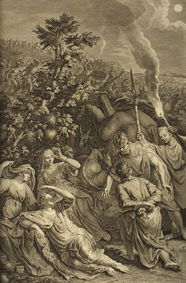 Abram Rescues Lot, the Women, and Goods; as in Genesis 14:14-16: "And when Abram heard that his brother was taken captive, he armed his trained servants, born in his own house, three hundred and eighteen, and pursued them unto Dan. And he divided himself against them, he and his servants, by night, and smote them, and pursued them unto Hobah, which is on the left hand of Damascus. And he brought back all the goods, and also brought again his brother Lot, and his goods, and the women also, and the people."; illustration from the 1728 Figures de la Bible; illustrated by Gerard Hoet (1648–1733) and others, and published by P. de Hondt in The Hague; image courtesy Bizzell Bible Collection, University of Oklahoma Libraries